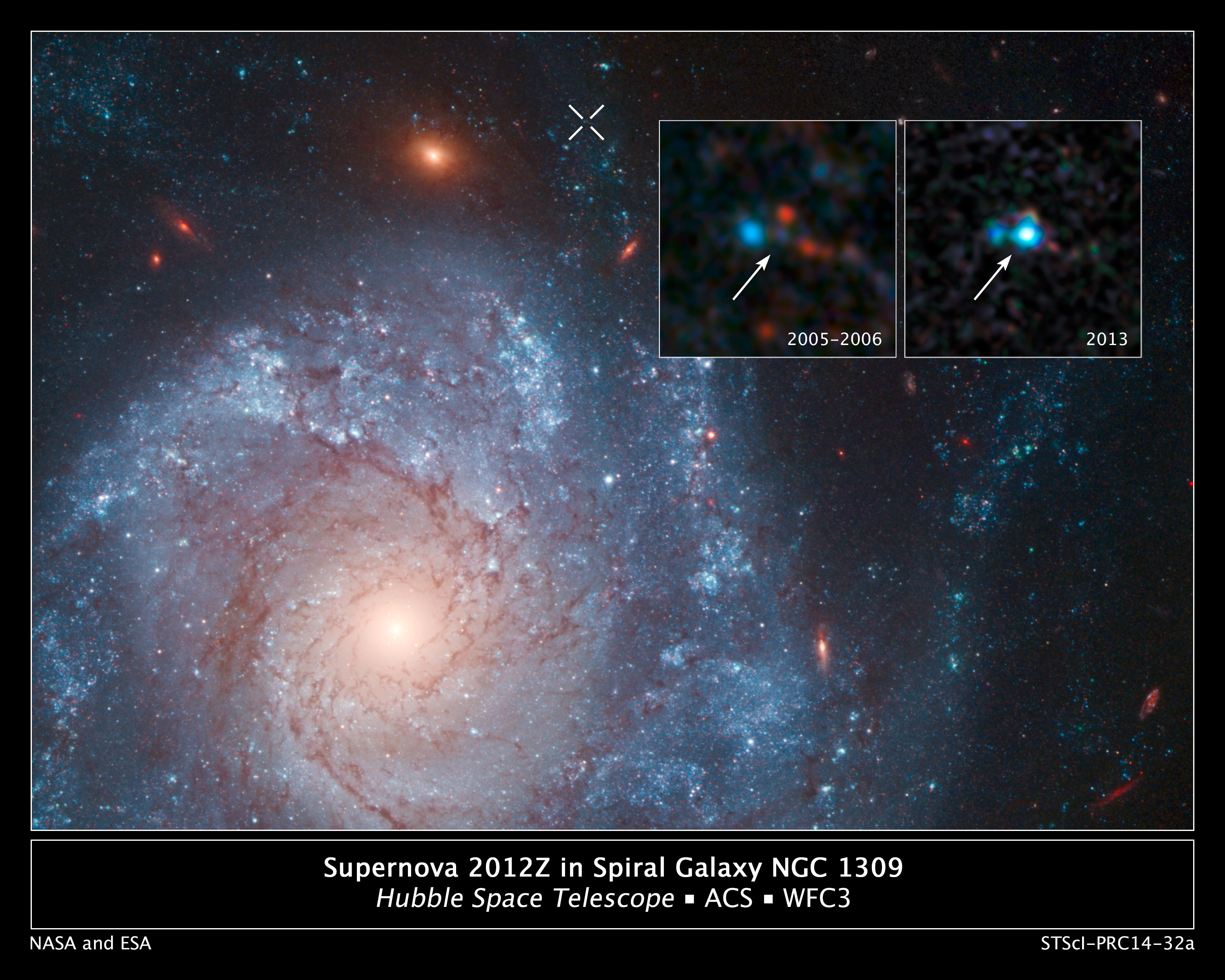 This image shows spiral galaxy NGC 1309. The inset panel shows a pair of NASA/ESA Hubble Space Telescope images of the galaxy that were taken before and after the appearance of Supernova 2012Z. The white X-shaped feature at the top of the image of the galaxy marks the location of the supernova. The inset panel from 2013 shows the supernova whilst archival Hubble data from 2005 and 2006 show the progenitor system for the supernova, thought to be a binary system containing a helium star transferring material to a white dwarf that exploded. The stellar blast is a member of a unique class of supernova called Type Iax. These supernovae are less energetic, and hence fainter on average, than their well-known cousins Type Ia supernovae, which also originate from exploding white dwarfs in binary systems.